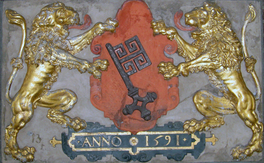 The coat of arms of Bremen, Germany, from the former Kornhaus from the year 1591 (destroyed 1944), now placed at the Staatsarchiv (“Public record office”) in Bremen.